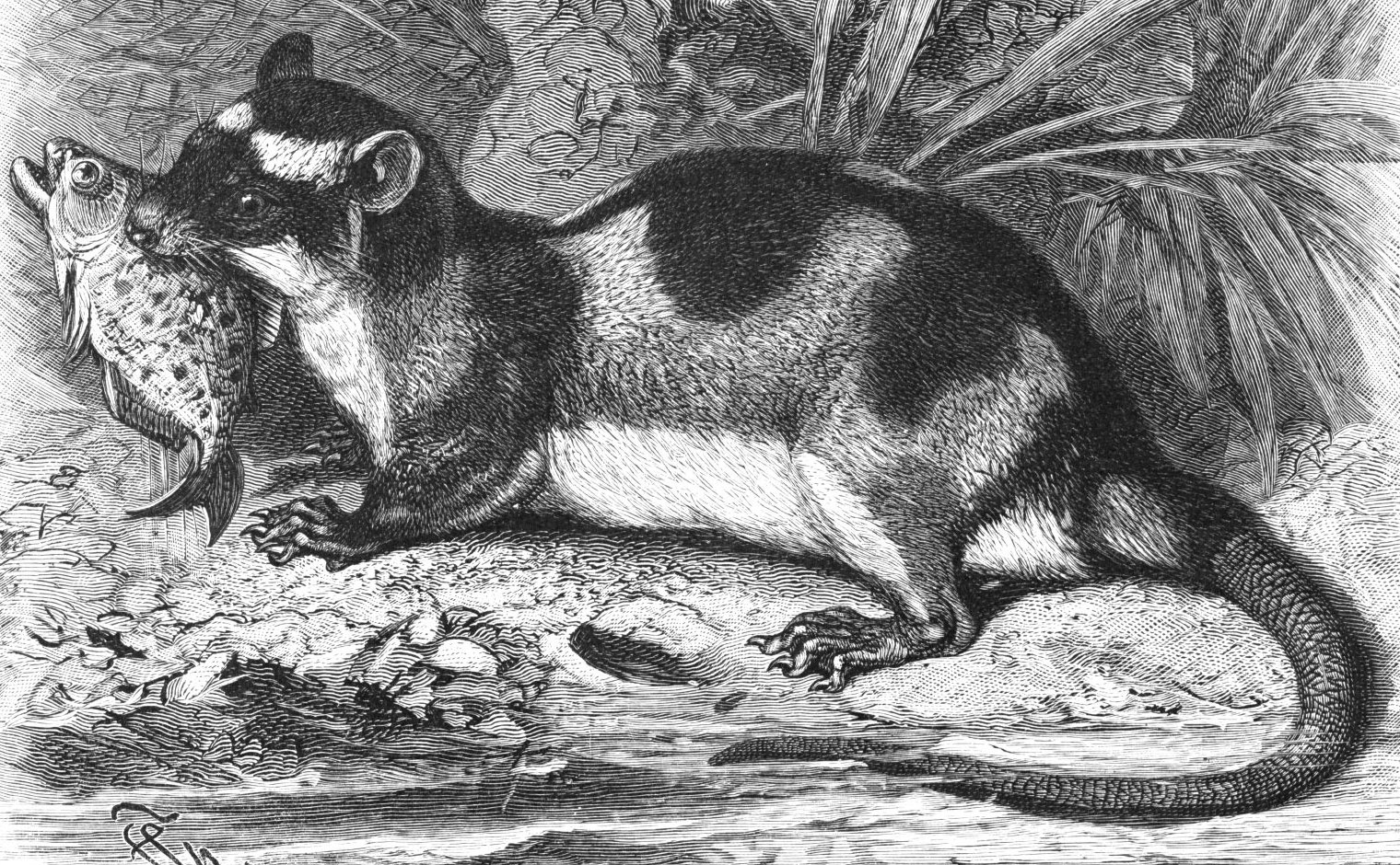 Original caption: "Schwimmbeutler, Chironectes minimus Zimm. 1/3 natürlicher Größe." Translation (partly): "Water opossum or yapok, Chironectes minimus Zimm. 1/3 natural size." Size: 5.3 x 4.4 in² (13.4 x 11.2 cm²) Originator: Friedrich Specht. NOTE: this version is cropped from the original.